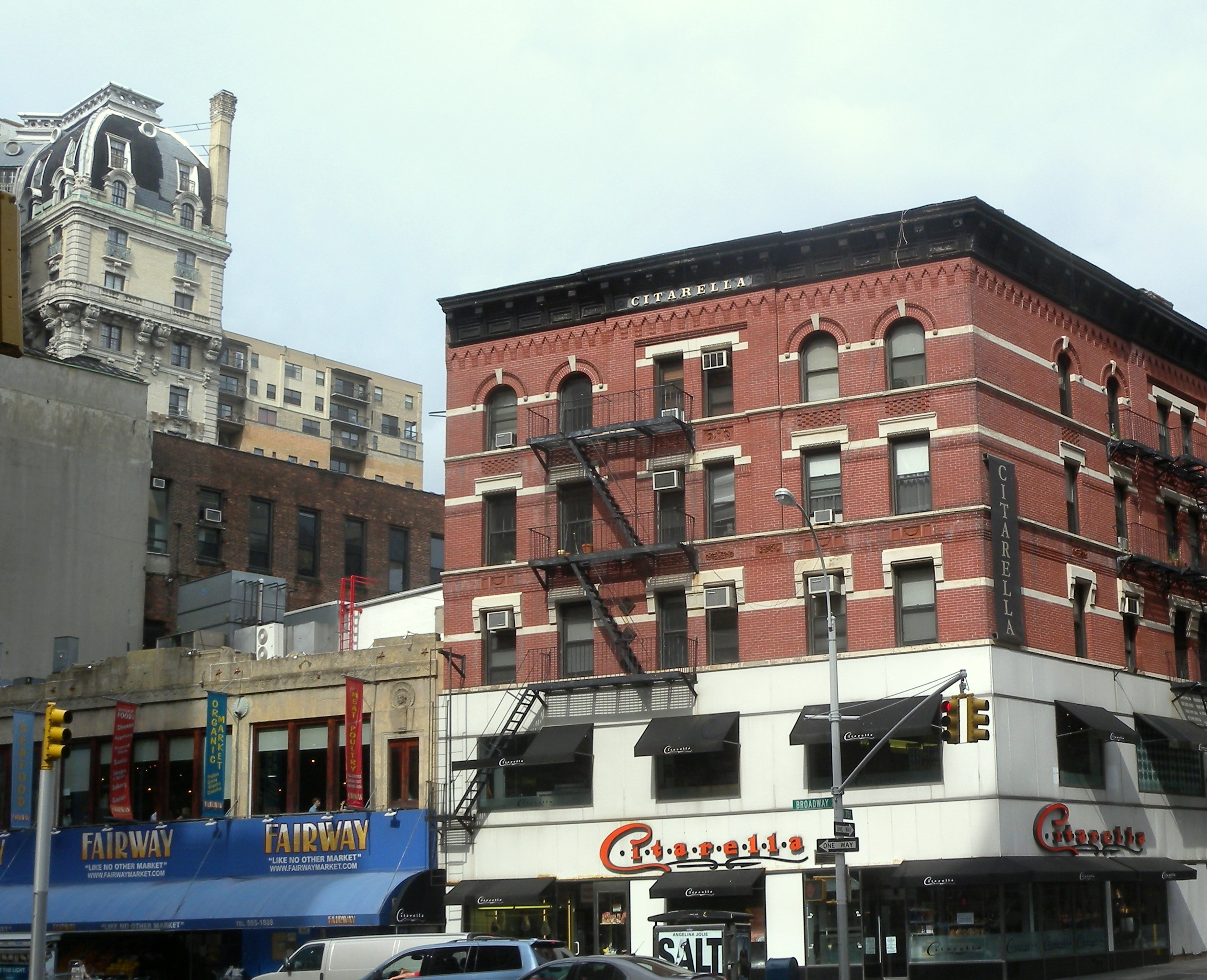 Looking southwest across Broadway and 75th at Citarella and Fairway on a cloudy day. Ansonia's northwestern tower, background left.